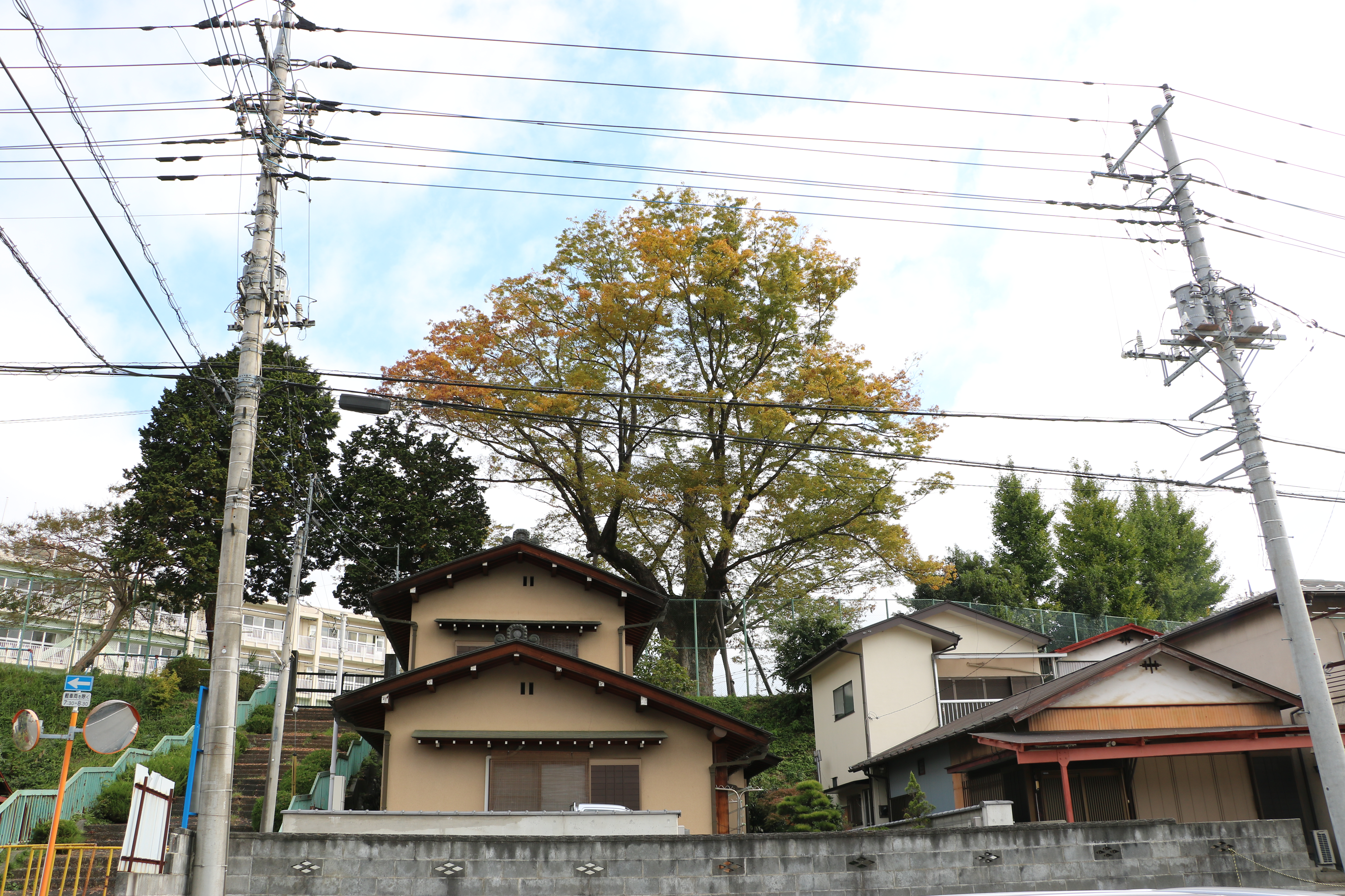 Grand Zelkova serrata of Uenohara